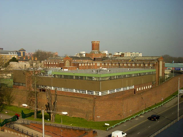 HM Prison Reading Built in 1844 and immortalised by Oscar Wilde in his Ballad of Reading Gaol. He wrote De Profundis whilst serving his sentence here from 1895 to 1897. Today it houses young offenders. For more information see Reading (HM Prison).